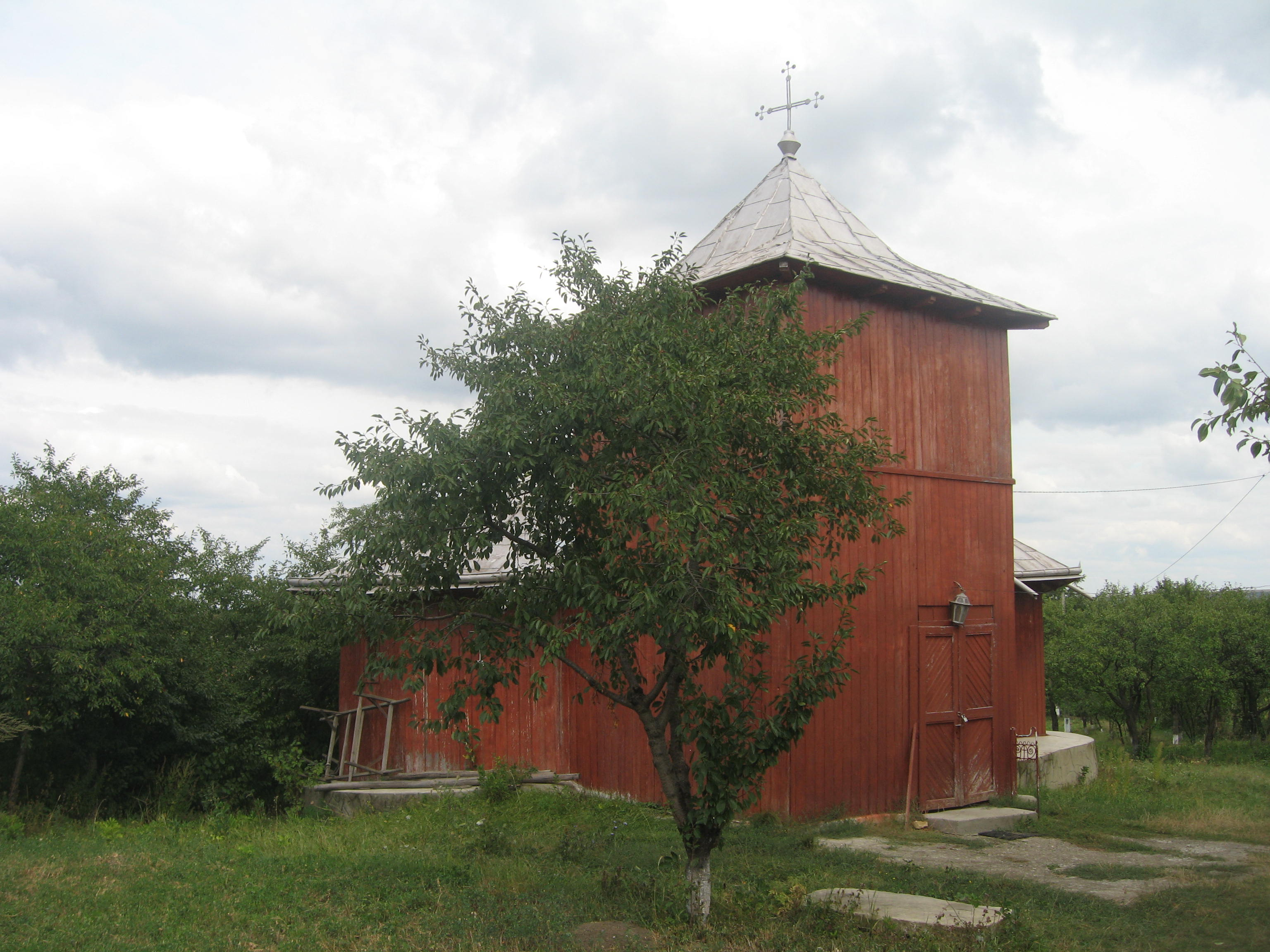 Biserica de lemn din Zlodica